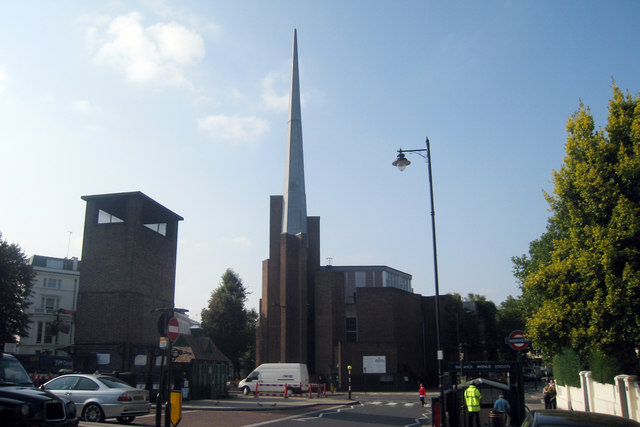 St Saviour's Church, Warwick Avenue, London, near to Paddington, Westminster, Great Britain.